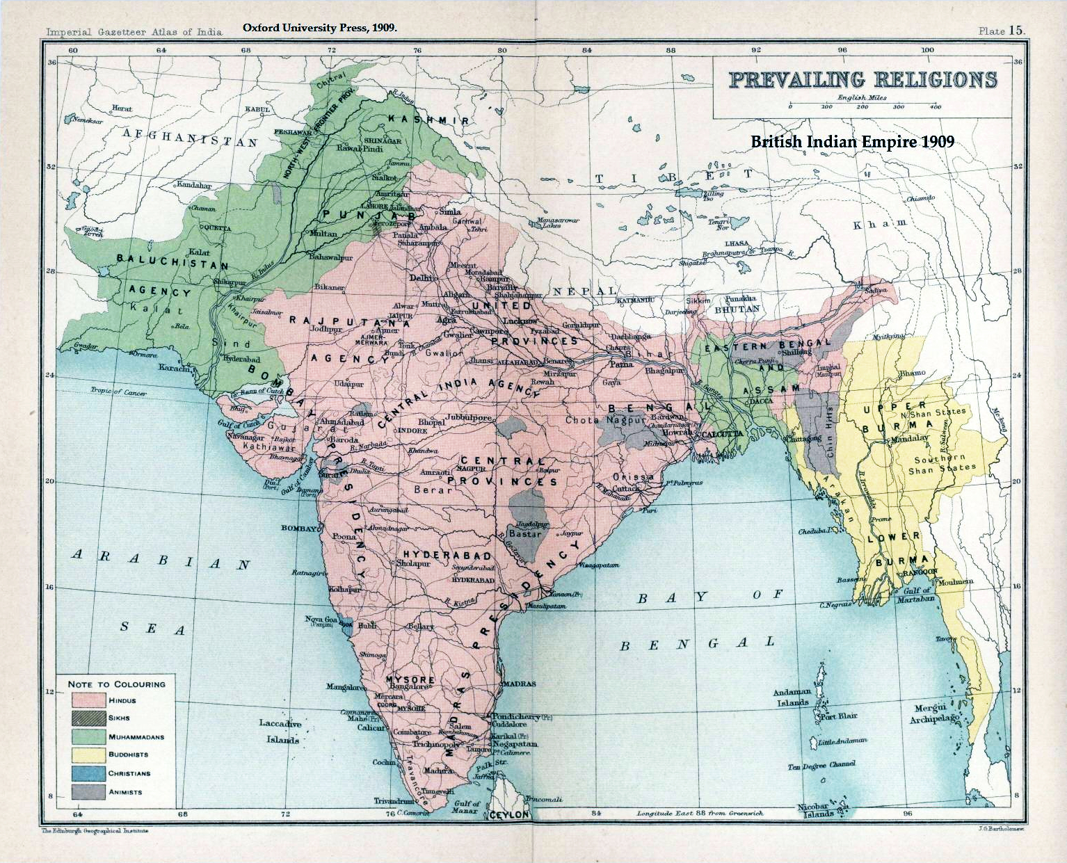 Map "Prevailing Religions of the British Indian Empire, 1909" Key: Pink Hindu Green Muslim Diagonal lines Sikh (small area in Punjab) Yellow Buddhist (Burma and Chittagong Hill Tracts) Blue Christian (Goa) Purple Animist (several inland hilly areas) The Andaman islands are not mapped.